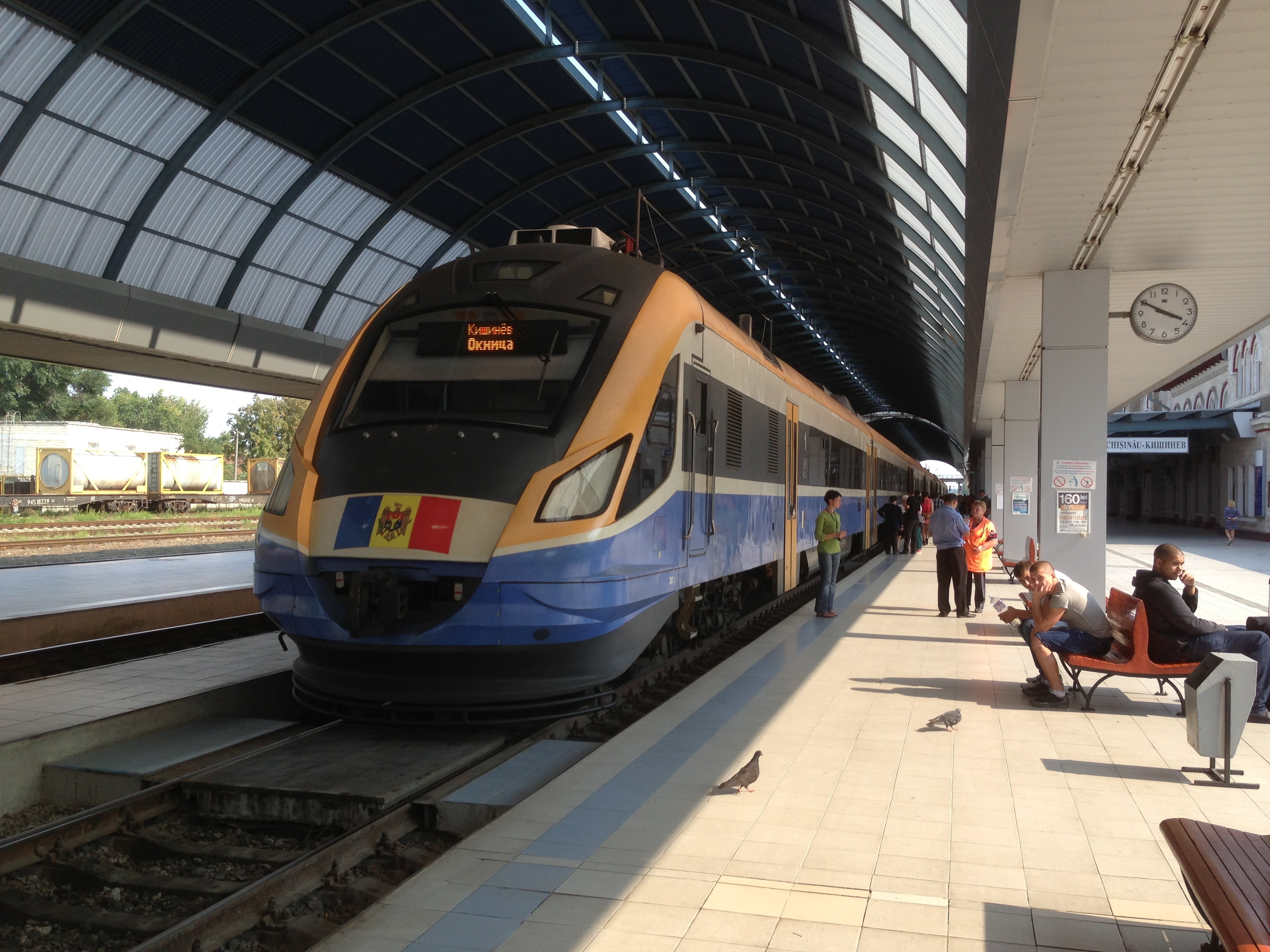 Chisinau Moldova Moldovan Railways